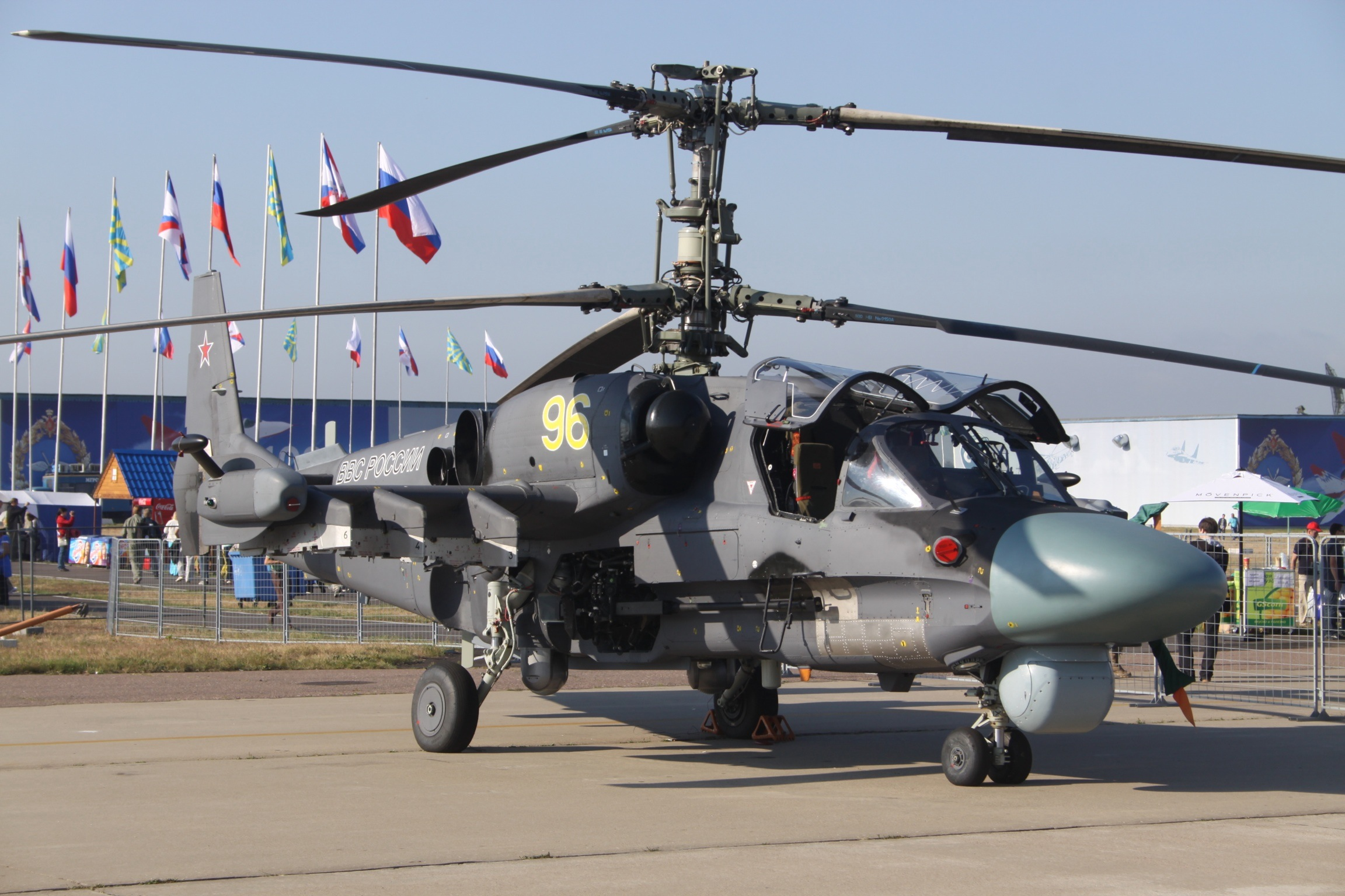 At Moscow Zhukovsky